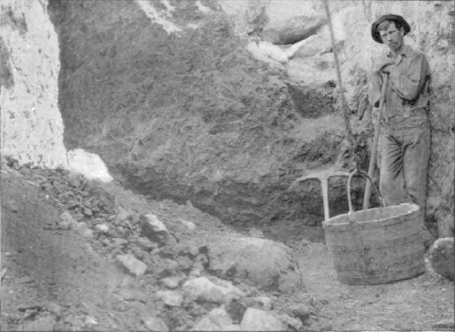 Sapphire mine of Yogo District, Montana. Face of dike in open cuttings.